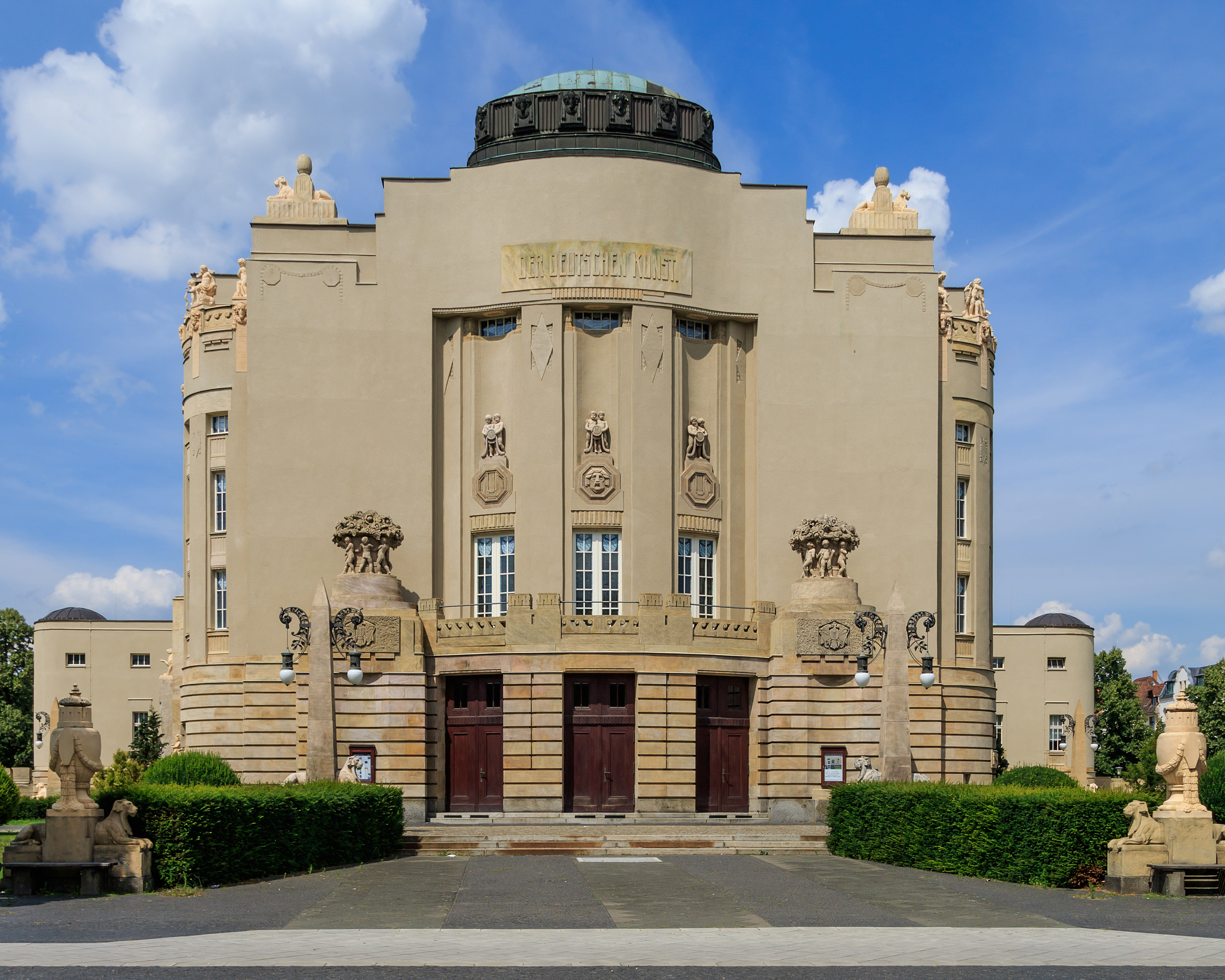 Building of the Staatstheater in Cottbus (Germany)